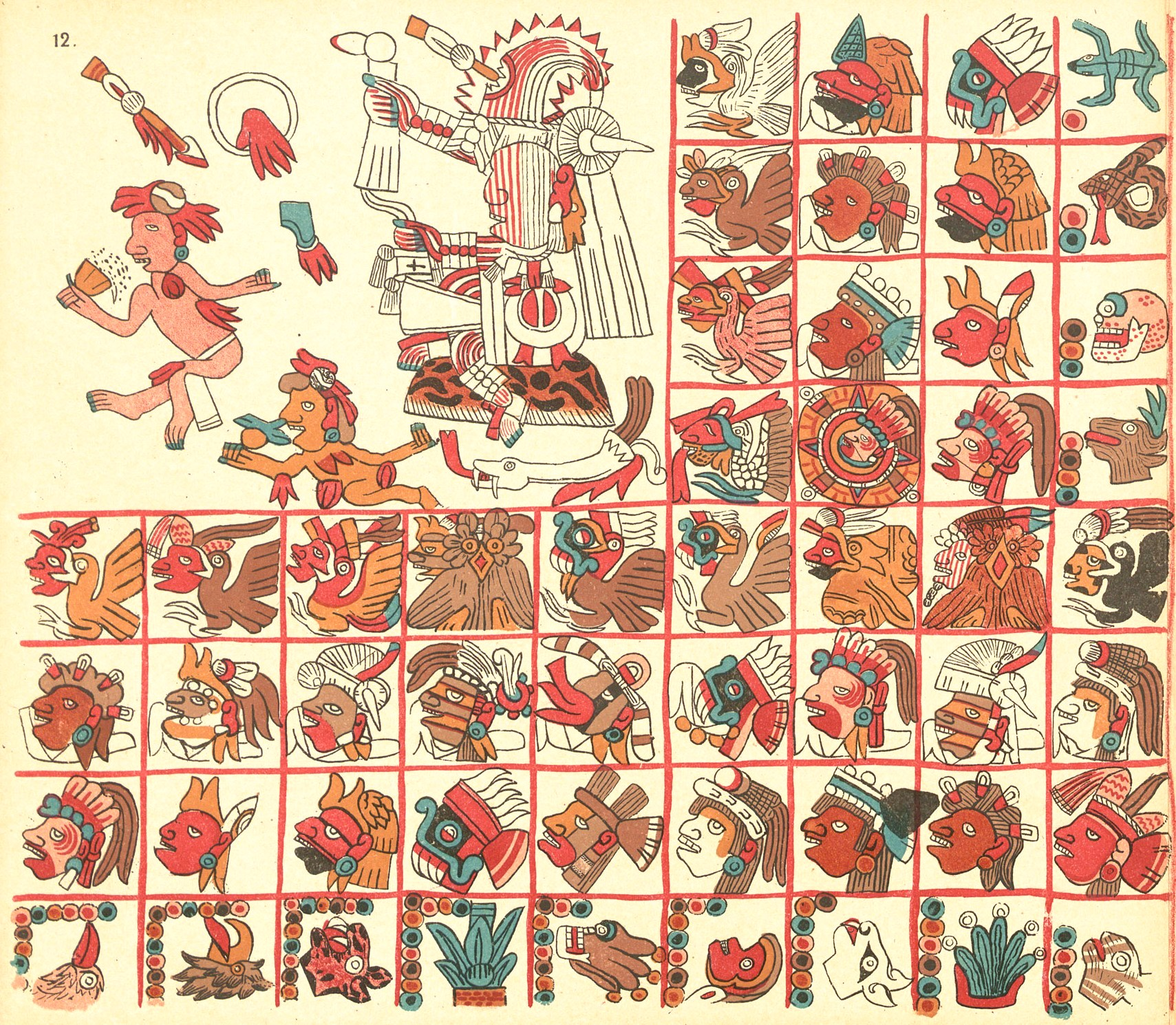 Codex Tonalamatl, page 222.